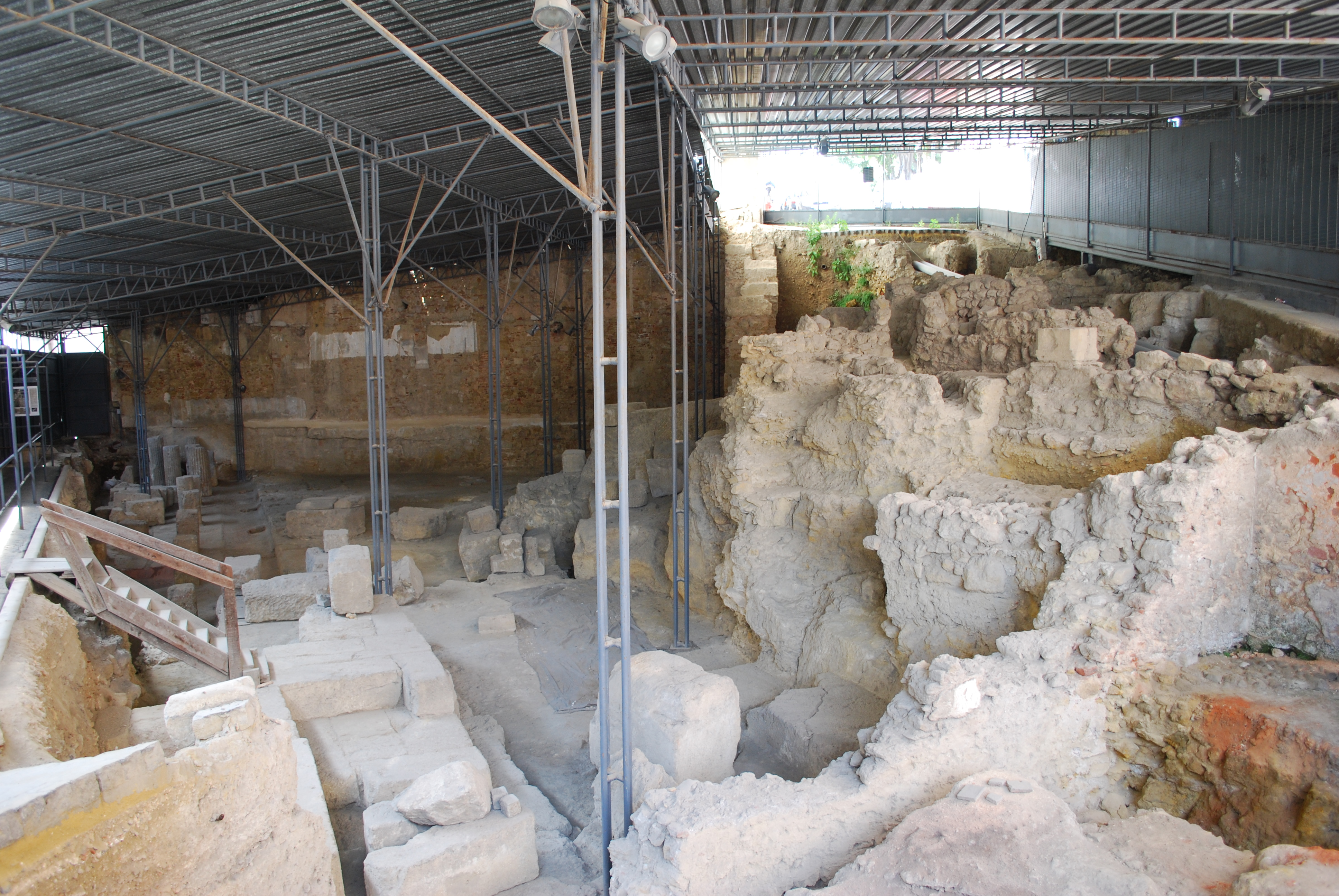 This file was uploaded for Wiki Loves Monuments in Portugal with the unique identifier 69753.